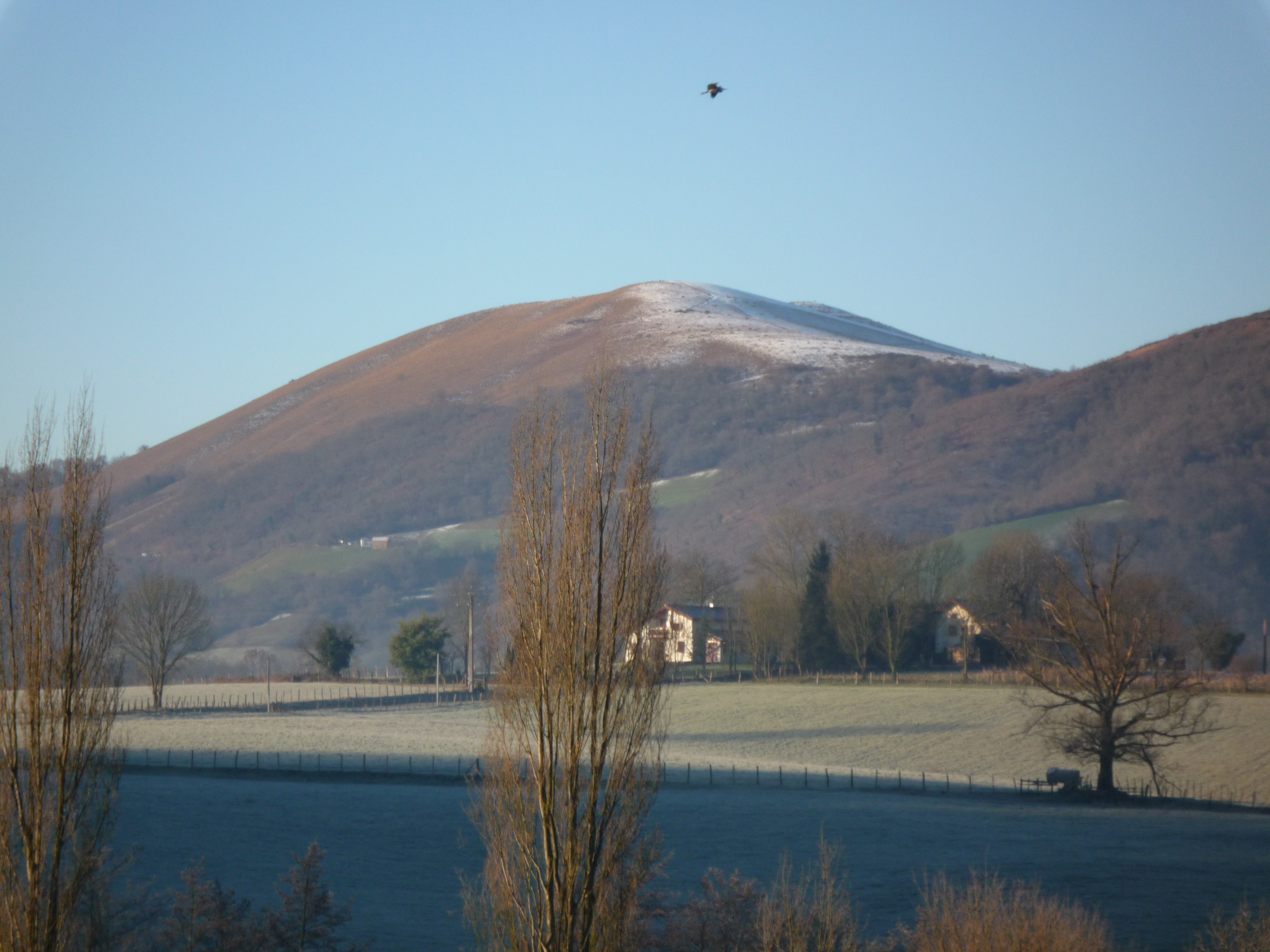 Mehalzu (648m) from Pagolle